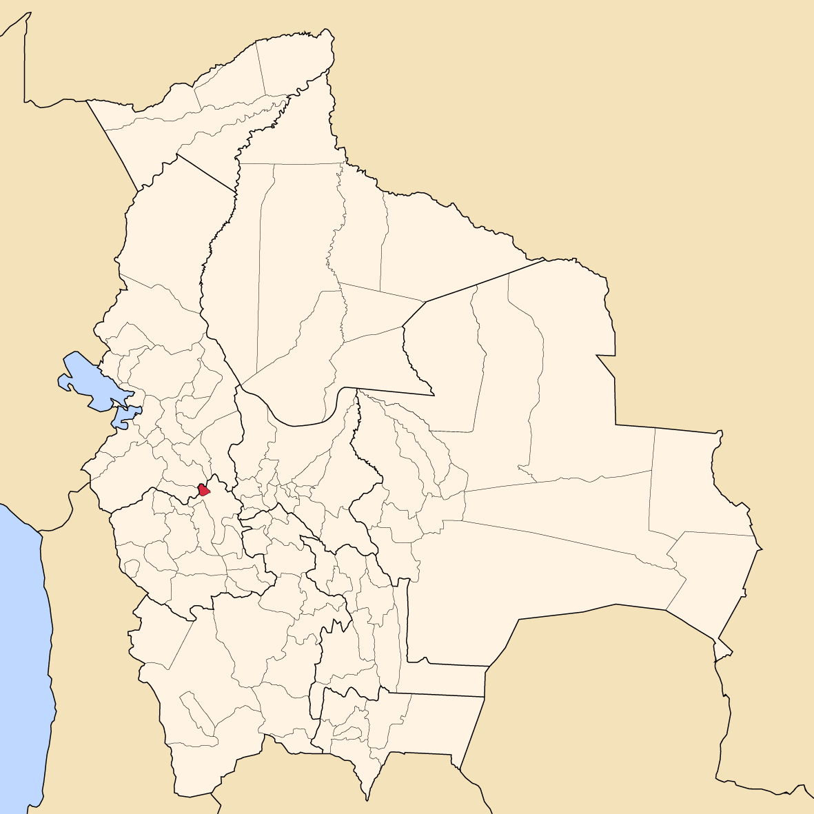 Map of Bolivia showing Tomás Barrón province, Oruro